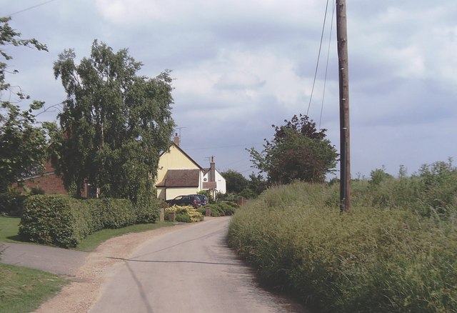 East Gores East Gores consists of just a farm and a few cottages.